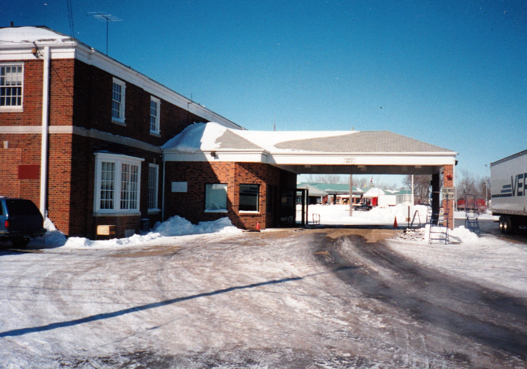 US Border Inspection Station at Portal, North Dakota, as seen in 1998